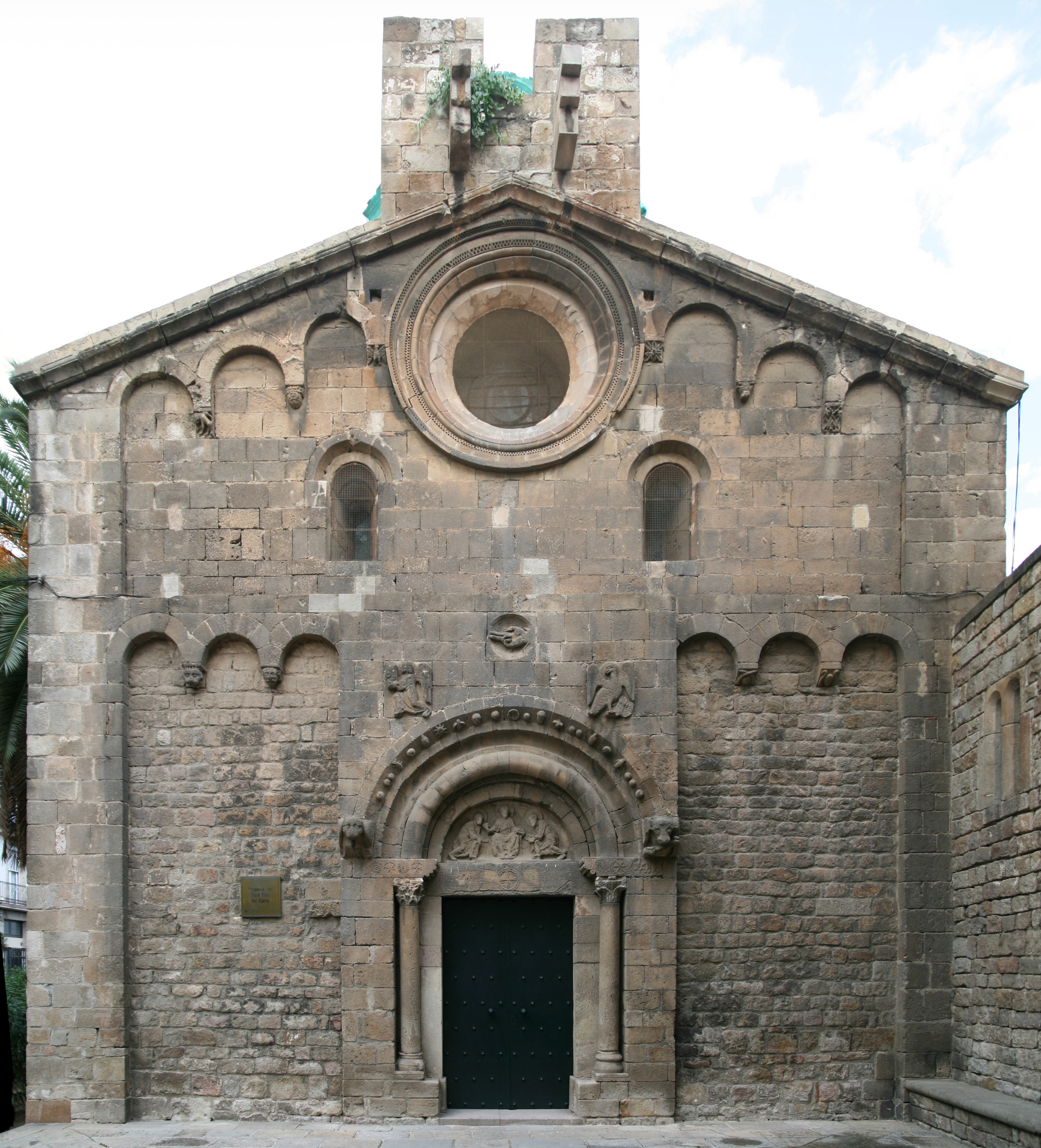 Façade of Sant Pau del Camp, Barcelona, Spain